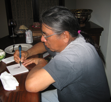 Benjamin Harjo, Jr., Absentee Shawnee-Seminole artist, sketching